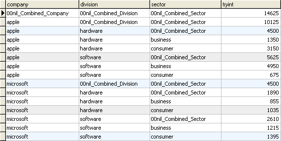 example of a data table with rollup field values that summarize subtotals across other rows